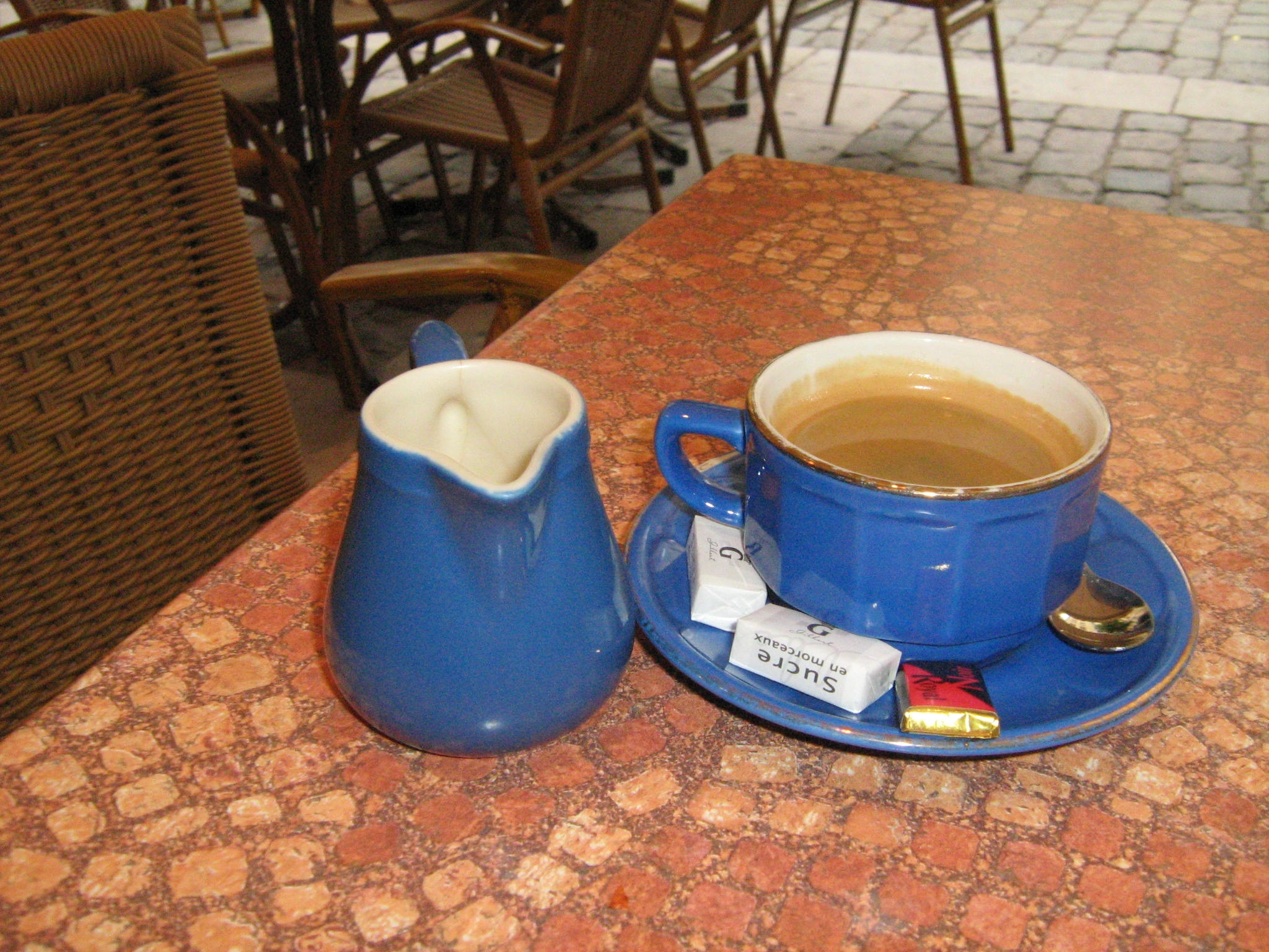 Café au lait in a Coffee at Vieux Lyon, Lyon.